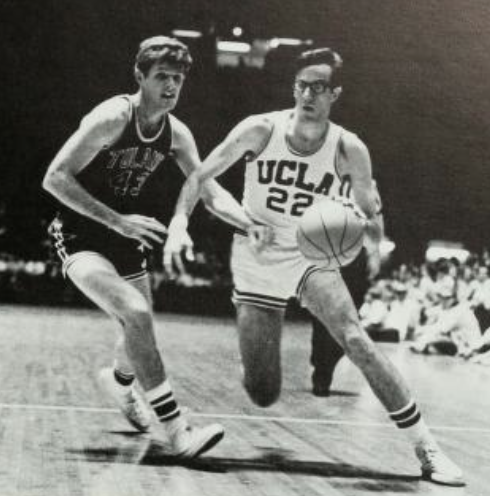 Kenny Heitz of UCLA against Tulane during 1968–69 season